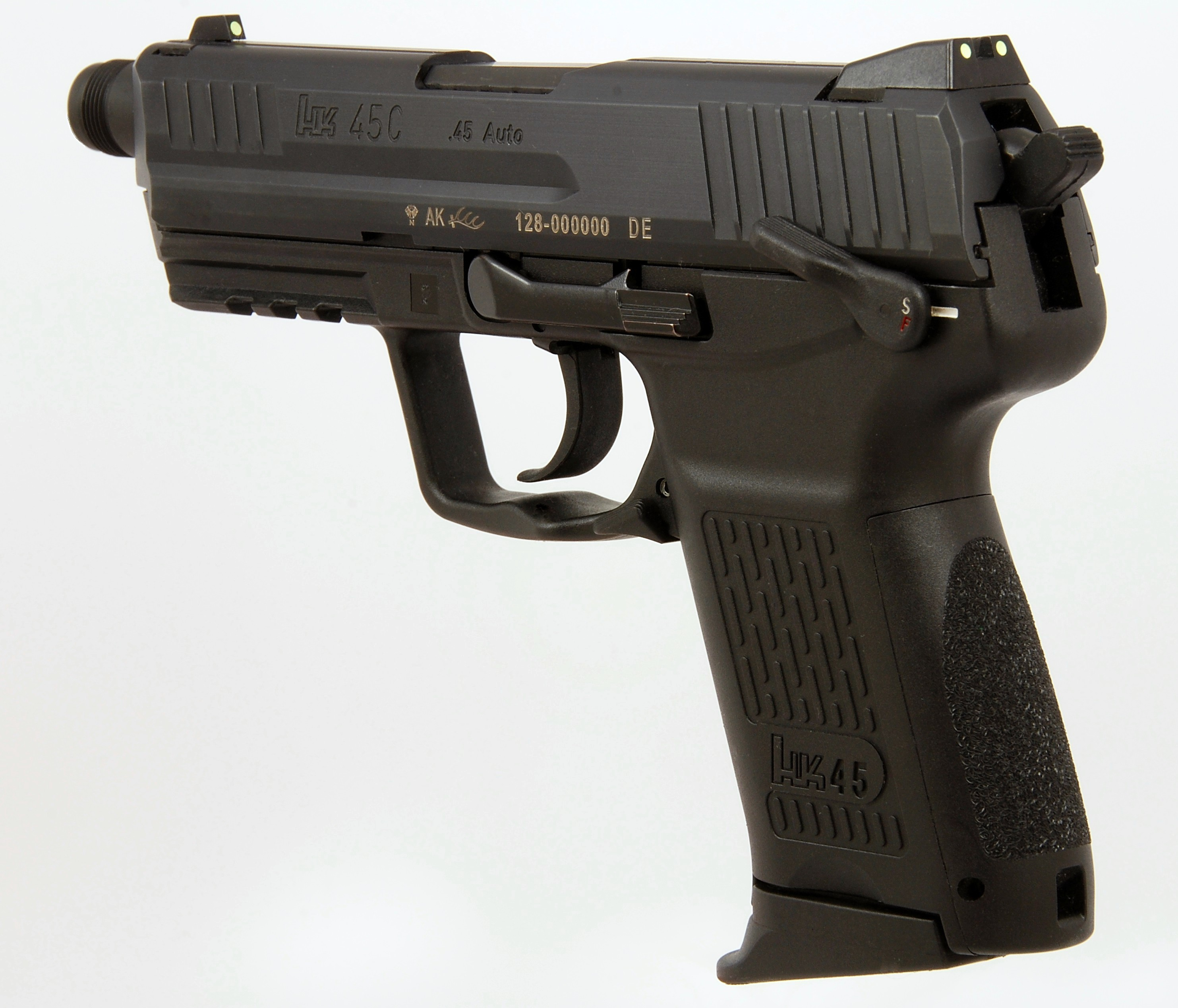 HK 45C Threaded Barrel Rear View